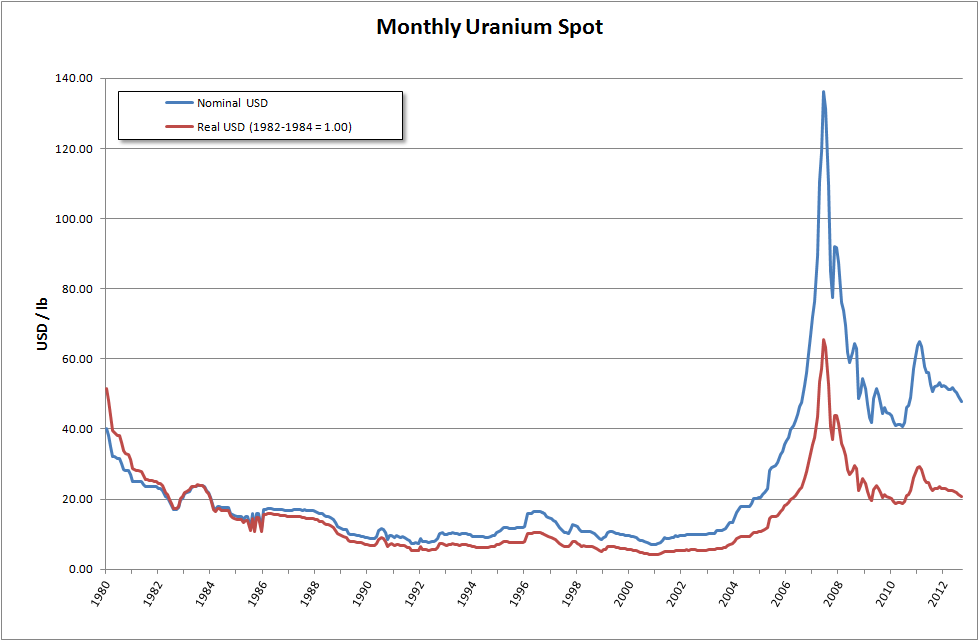 Monthly uranium spot prices in nominal and real USD per pound according to the NUEXCO Exchange Spot as reported by the International Monetary Fund. Real USD prices are computed according to the 1982-1984 reference value using the Consumer Price Index of the U.S. Department of Labor.